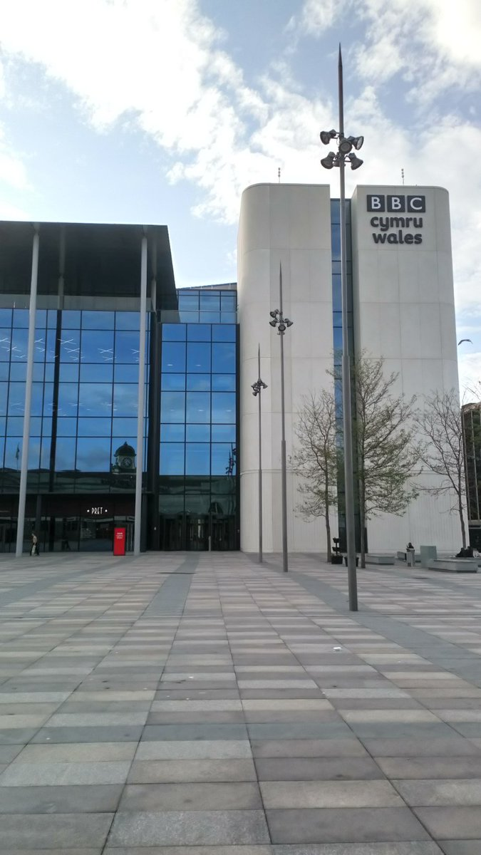 The BBC Wales Headquarters at One Central Square, Cardiff. June 2020.